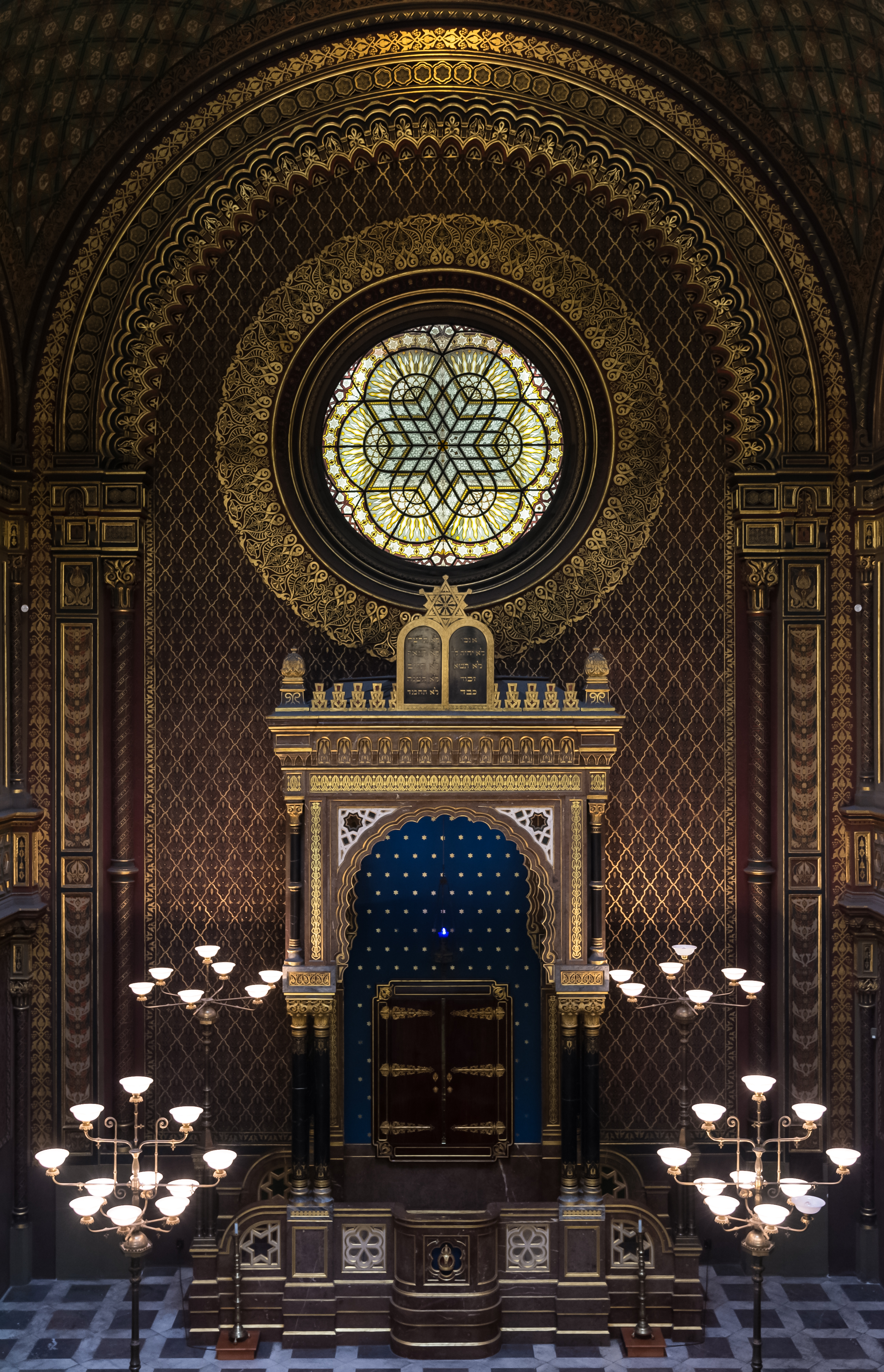 Torah ark and Bema at the Spanish Synagogue (in Czech Španělská synagoga) in in Josefov, Prague, Czech Republic